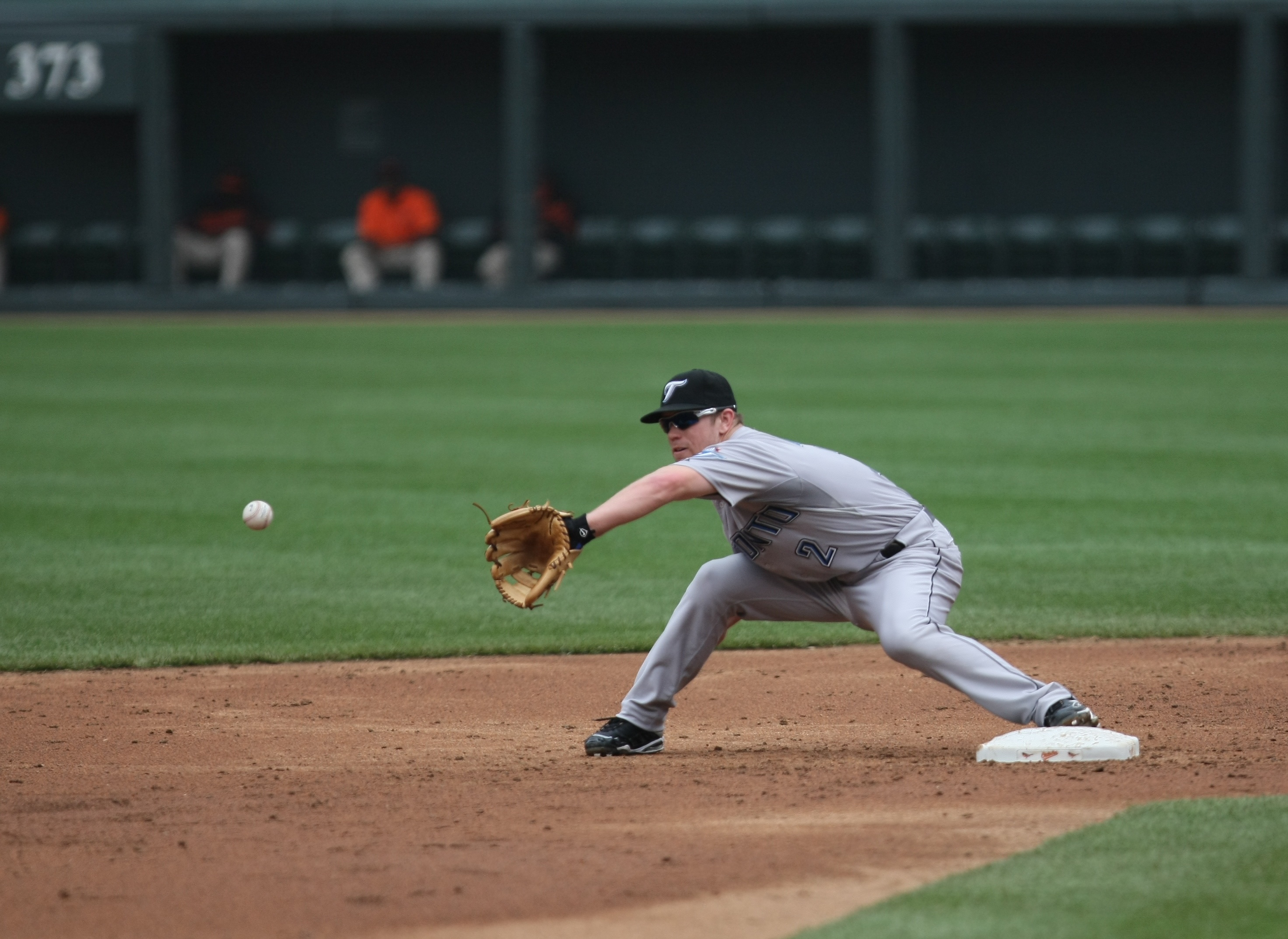 Aaron Hill receives a throw